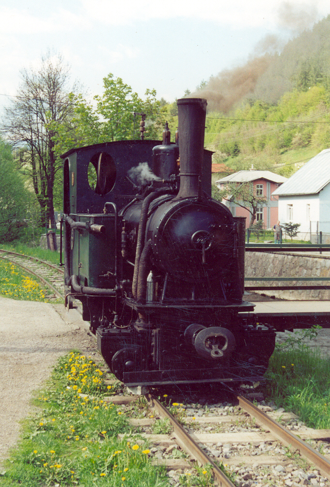 Small CHZ steam locomotive in Hronec village. Locomotive was rebuilded from gauge 600 mm to 760 mm. Author:Stanislav Jelen